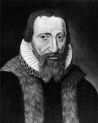 Ubbo Emmius (1547-1625) first rector magnificus at the University of Groningen (Netherlands)